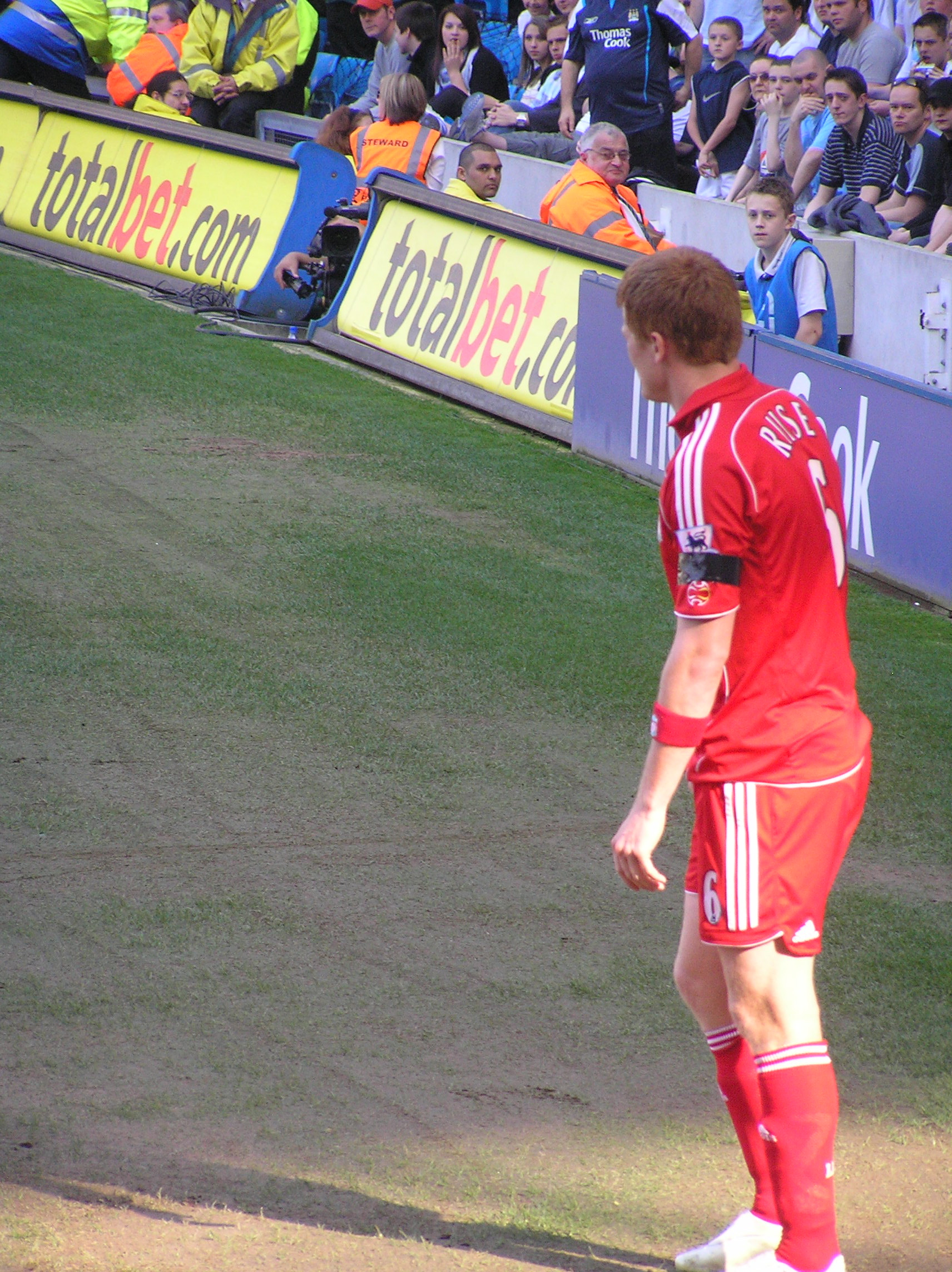 John Arne Riise, Liverpool F.C. footballer